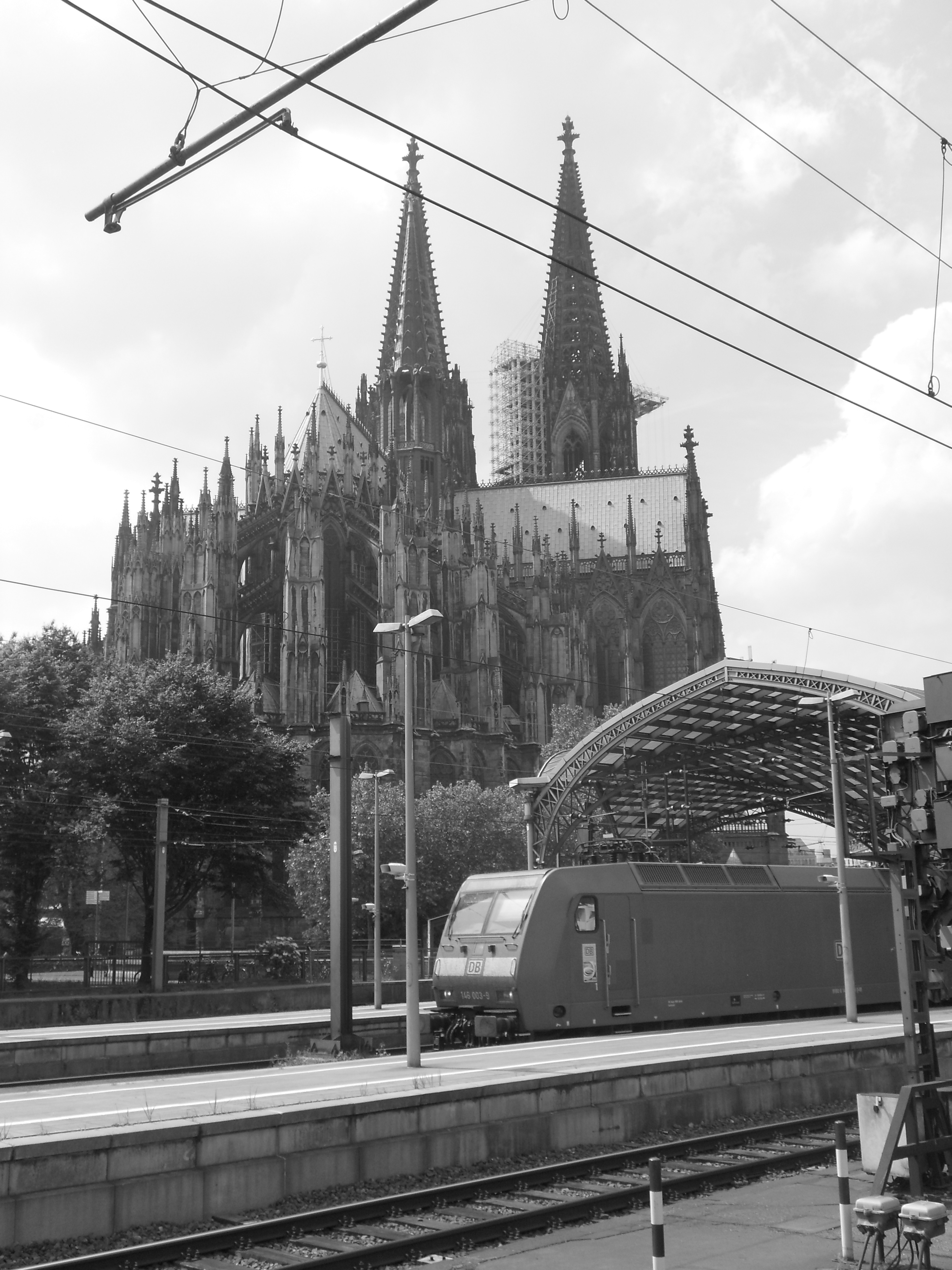 Kölner Dom and Köln Hbf.